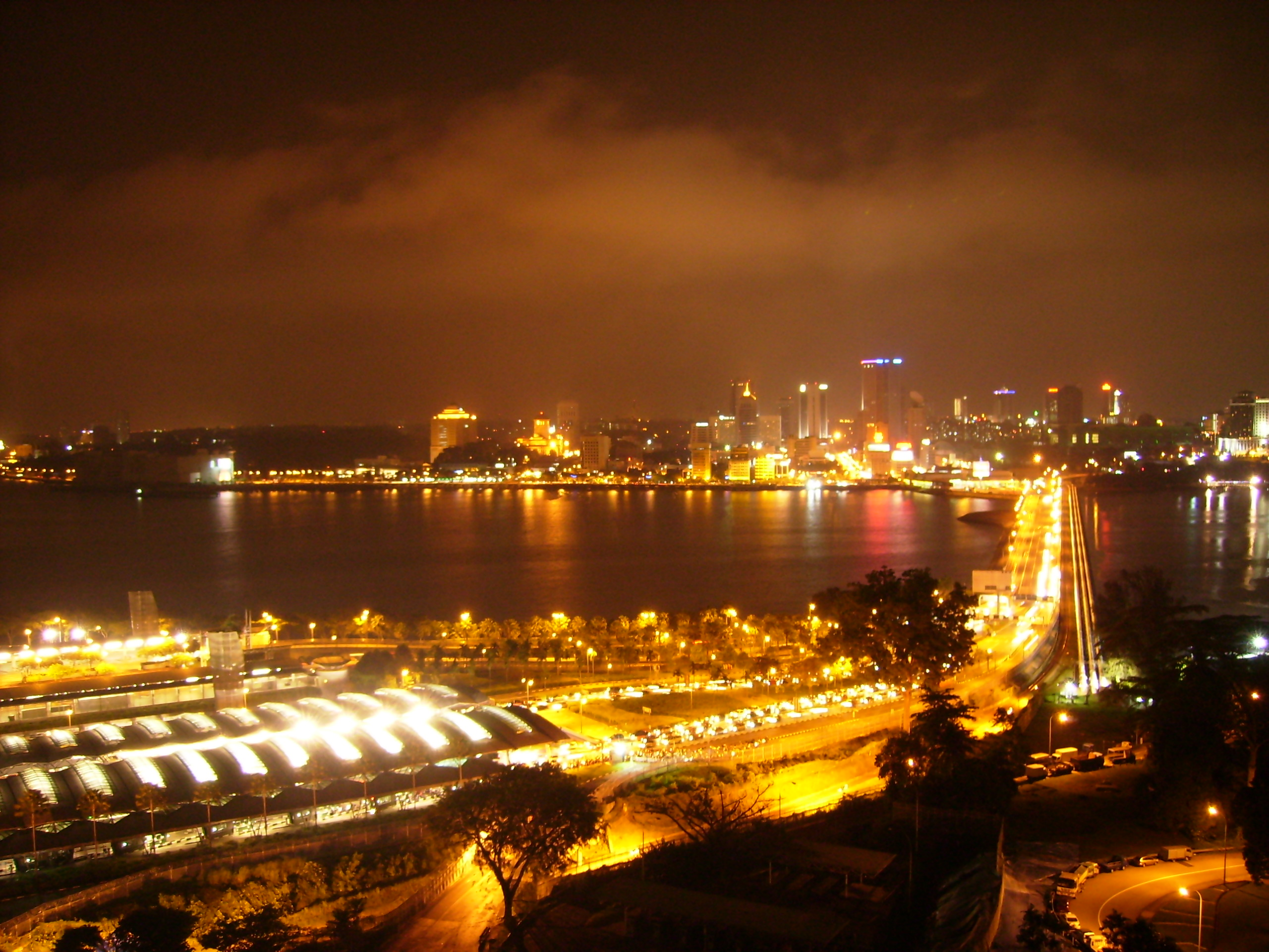 Causeway Singapore - Johor Bahru (Malaysia). Picture taken by myself from my apartment. Feel free to use it.